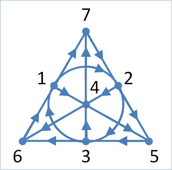 Fano plane for multiplication of octonions using numbered vertices, not lettered